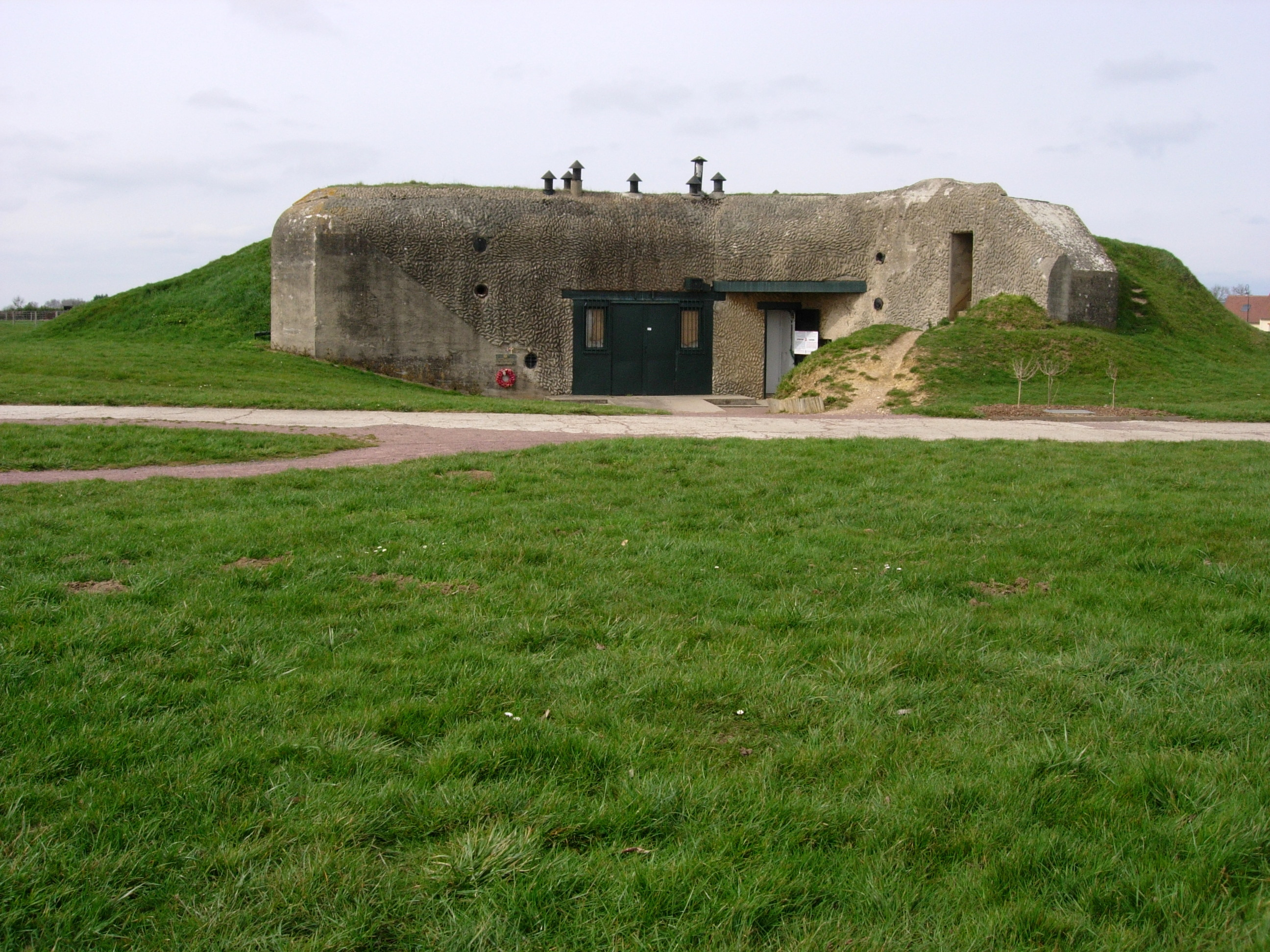 The Merville Gun Battery was a coastal fortification in Normandy, France, in use as part of the Nazis' Atlantic Wall built to defend continental Europe from Allied invasion. It was a particularly heavily fortified position and one of the first places to be attacked by Allied forces during the Normandy Landings commonly known as D-Day.